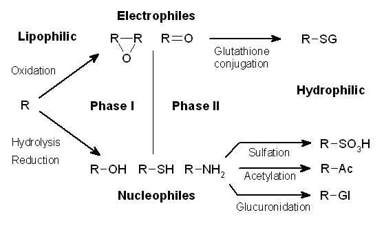 Outline of phase I and II of xenobiotic metabolism